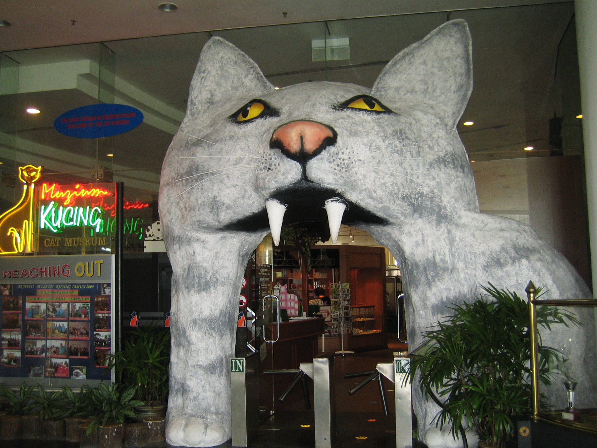 Main entrance to Kuching Cat Museum in 2009. The museum is situated inside the headquarter of Kuching North City Hall.